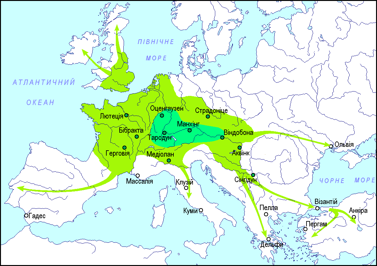 Map of Celts' Expantion at IV-III centuries BC (ukrainian)